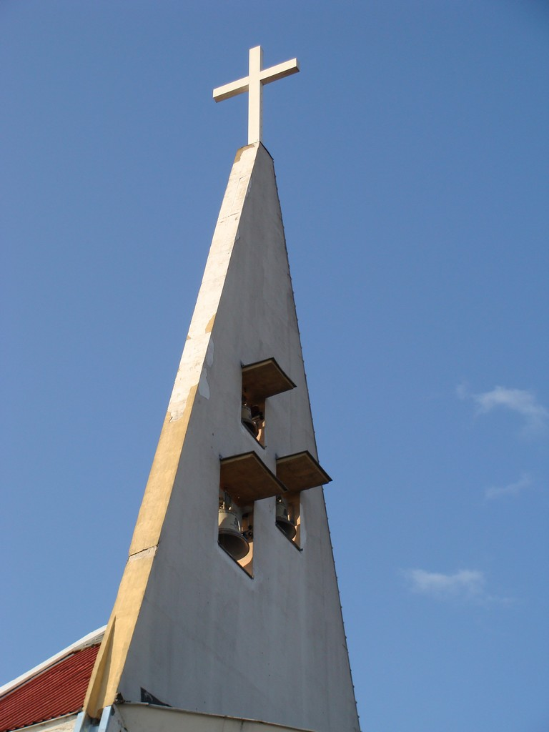 Śrem, Church of the Holy Heart of Jesus.